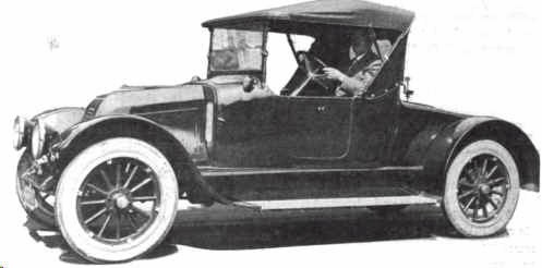 The 1915 Stewart automobile was the short-lived attempt of a truck manufacturer to enter the car field.